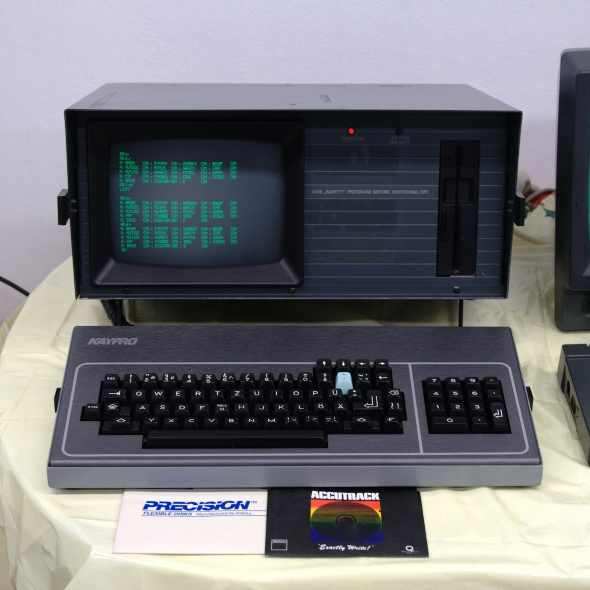 A Kaypro 10 portable computer. “A Kaypro for the serious user: comes with a 10-meg hard drive, which almost certainly made it as portable as an oil drum full of cinder blocks. We're so spoiled these days. Back then, computer users had muscles.” —Soupmeister Tags: exhibit retrocomputing oldcomputers kaypro kaypro10 silogomaniacom collectingcomputers retrosystem2010 Retrosystems 2010 This retro-computing (and gaming) exhibit on the 4th and 5th of December, 2010, was organised by a forum of collectors, and displayed a number of the Classics.